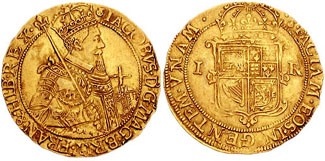 Scotland. James VI of Scotland (James I of England). 1567-1625. AV Unite or Sceptre (10.00 gm). Tenth coinage, struck 1609-1625. Half-length armored figure of king right, wearing Scottish crown and holding orb and sceptre; mm: thistle Crowned coat-of-arms dividing I R, Scottish arms in 1st and 4th quarters; same mm. Burns II pg. 434, 4 (figure 990); SCBC 5464. Good VF, a bit of die rust. From the Garth R. Drewry Collection. Ex Coin Galleries (13 February 1991), lot 898.